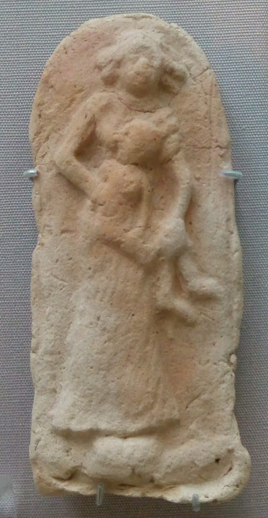 Baked-clay plaque of a mother and her child. From Ur, Old Babylonian Period (2000-1600 BC). ME 116815.